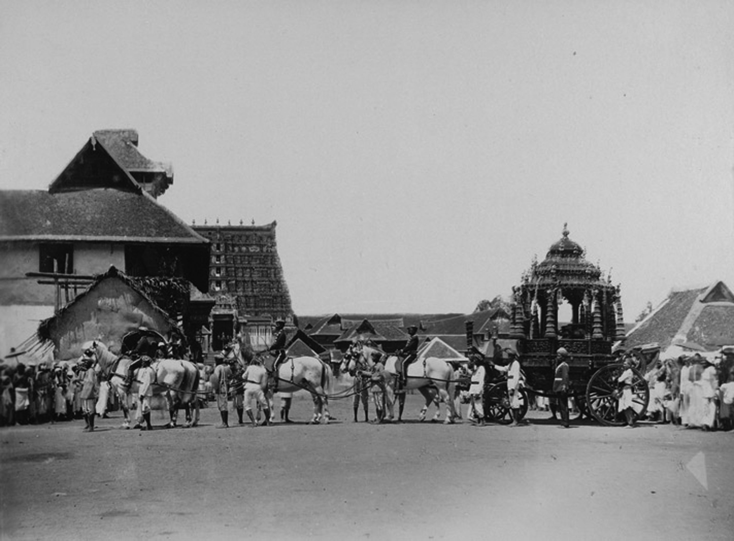 Photograph taken about 1900 by the Government photographer, Zacharias D'Cruz of the Travancore Maharaja's State Carriage in Trivandrum. It is one of 76 prints in an album entitled 'Album of South Indian Views' of the Curzon Collection. George Nathaniel Curzon was Under Secretary of State at the Foreign Office between 1895-98 and Viceroy of India between 1898-1905. It was drawn by a team of six horses. In the background can be seen the gopuram of the Padmanabha Swamy temple. This image falls into the public domain as it was taken in India prior to 1 January 1951, and was not published in India after that date. It is in public domain in the United States as well as it was taken prior to 1 January 1951.